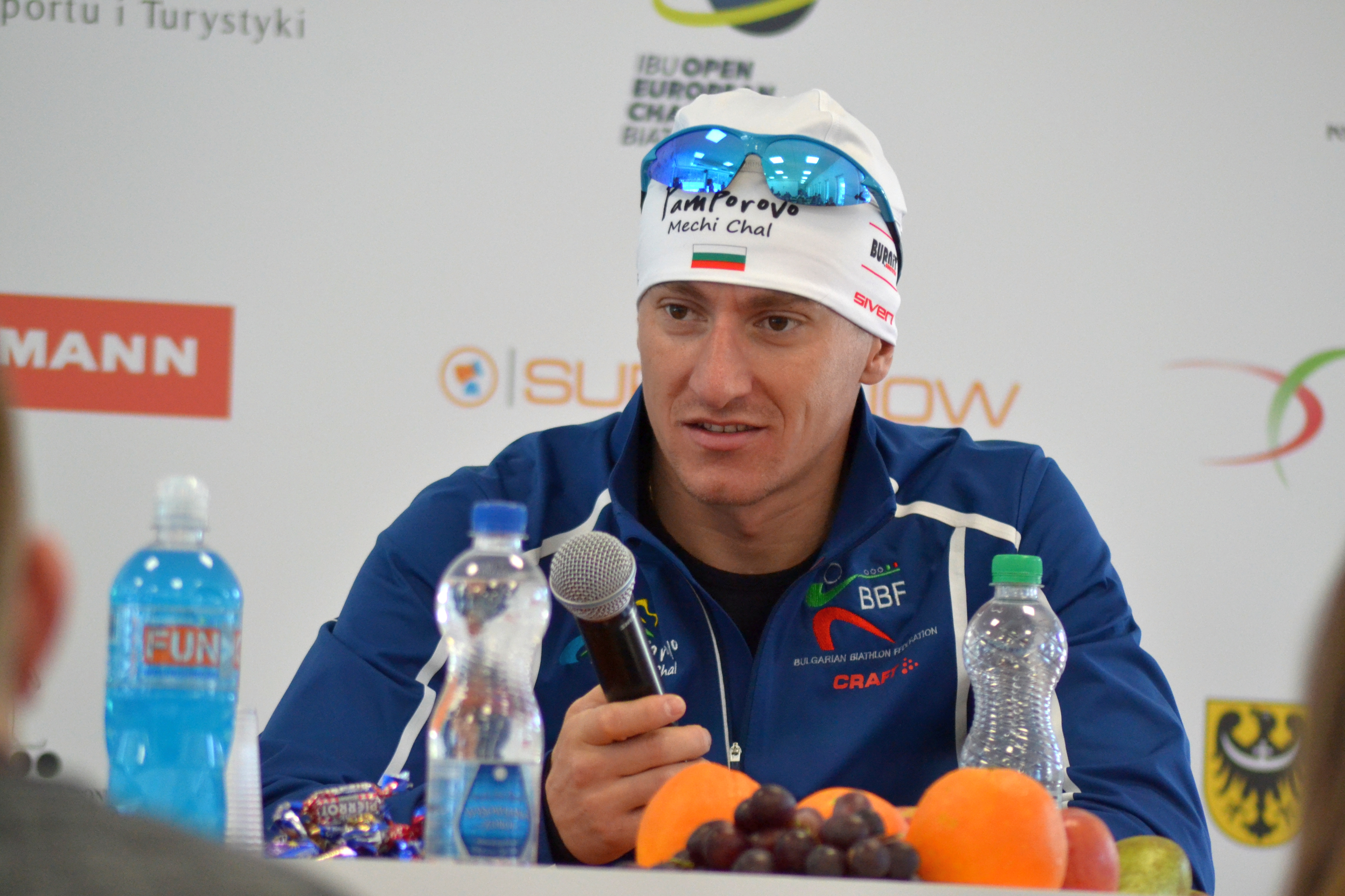 Open European Championships Biathlon 2017, Sprint Mens race.